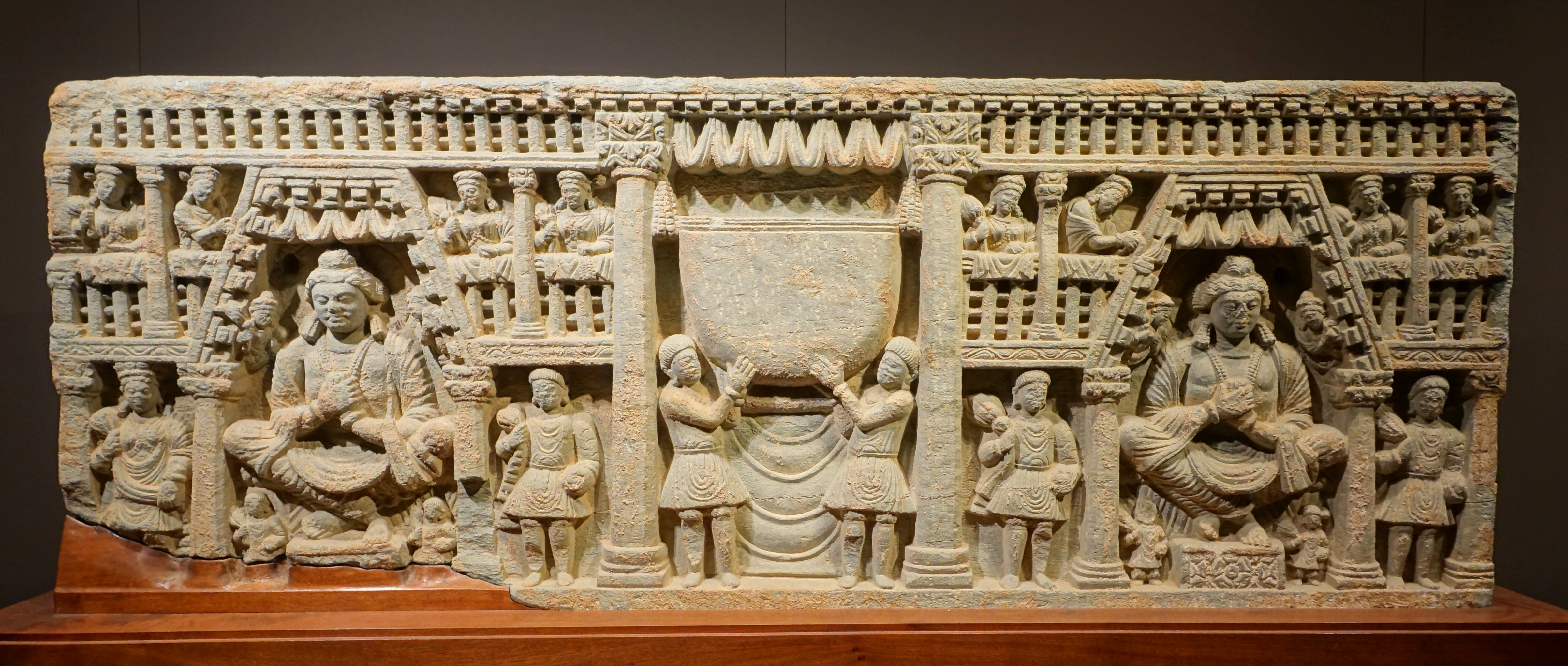 Exhibit in the Tokyo National Museum - Tokyo, Japan.